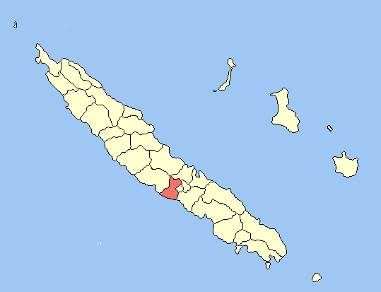 Created map myself.